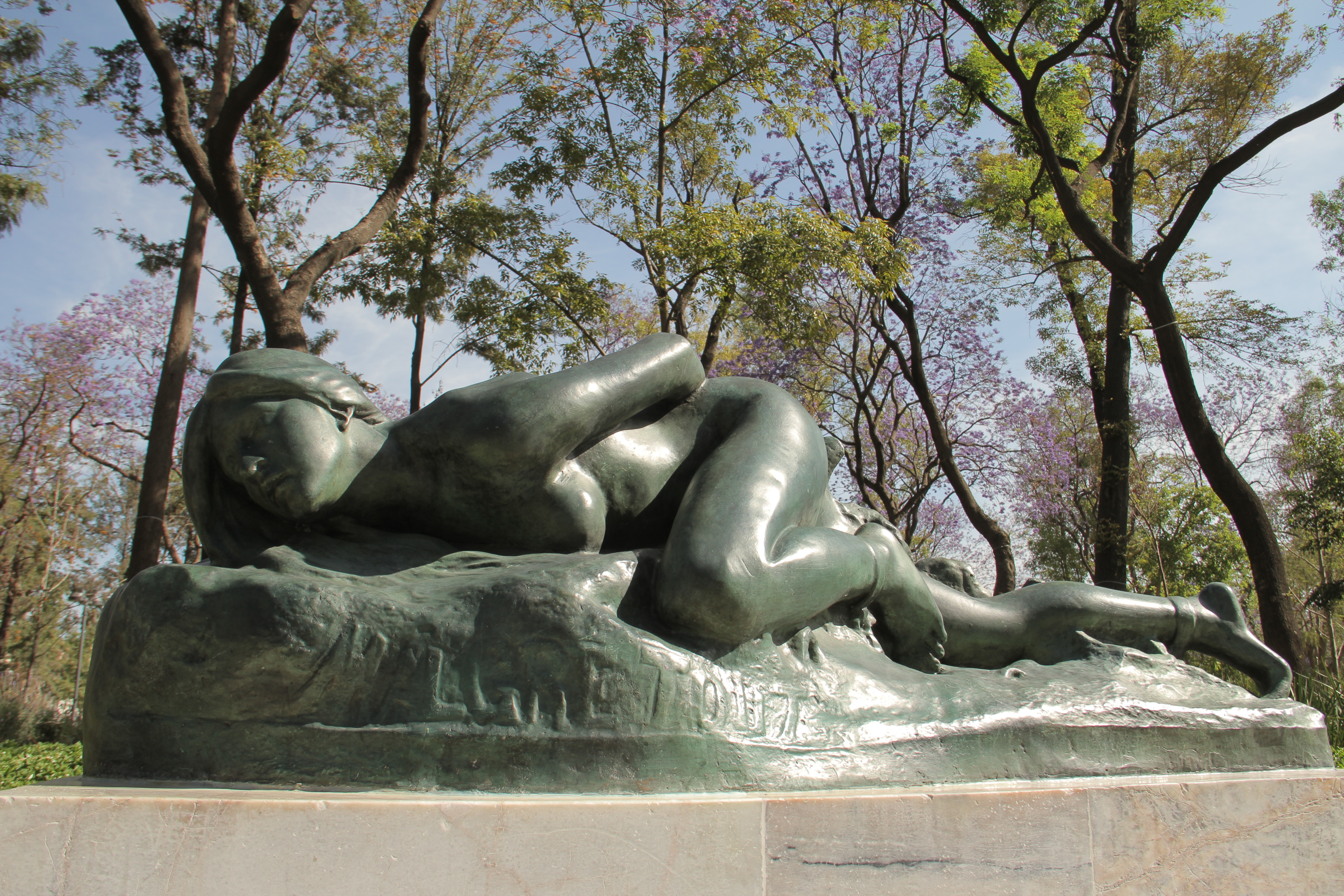 ESCULTURA ALAMEDA CENTRAL